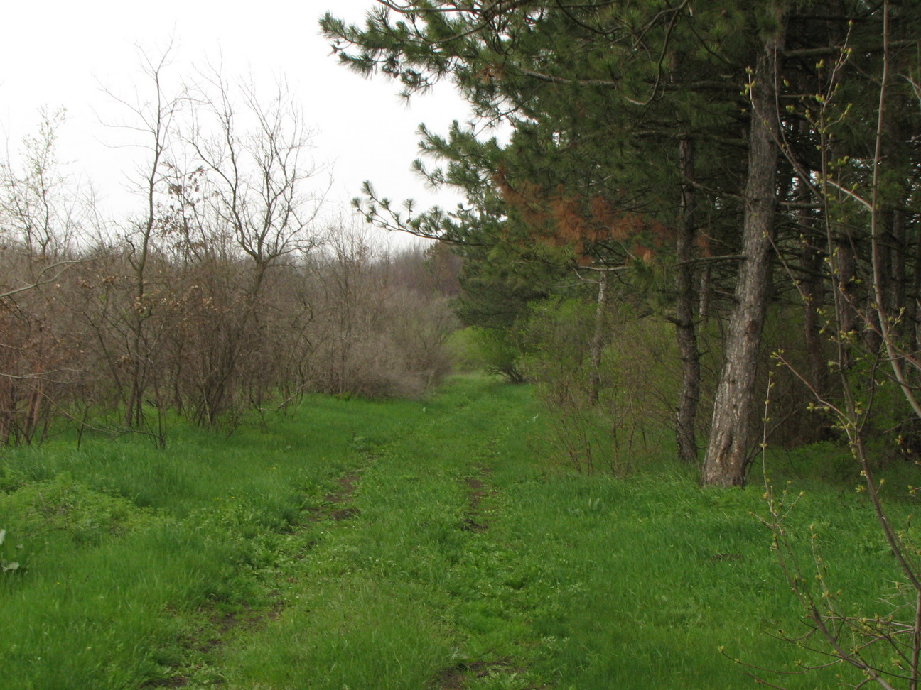 Forest of Dalnik